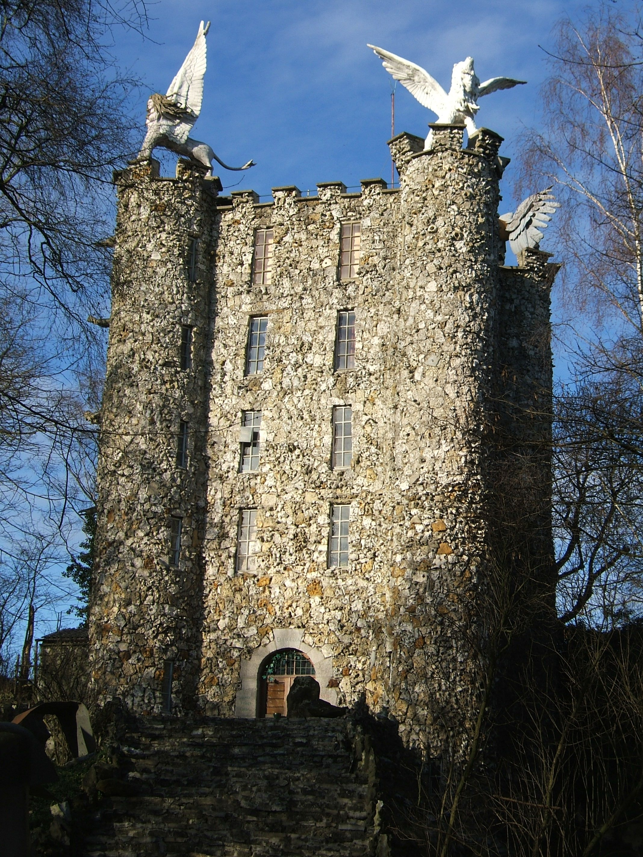 From the south with stairs and door Eben-Ezer.